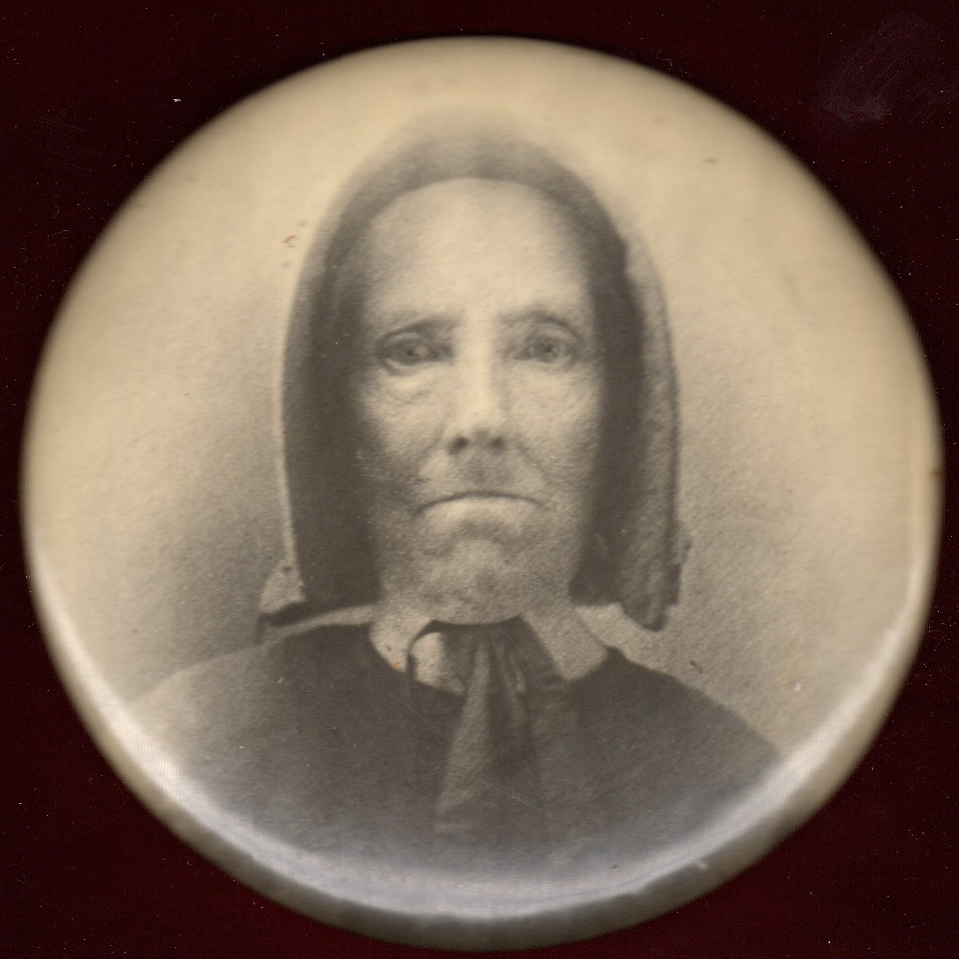 Antje Paarlberg; photo provided by a member of the Paarlberg family. "This photo is a scan of a 6" diameter metal button. I got it from my grandfather who was her grandson. There aren't any markings on it but I suspect its ca 1870." - Robert Paarlberg.